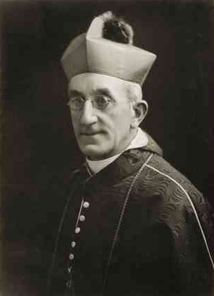 Robert Spence, Archbishop of Adelaide 1913 - 1934